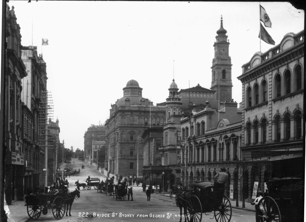 'Sydney City' Pictures from The Powerhouse Museum